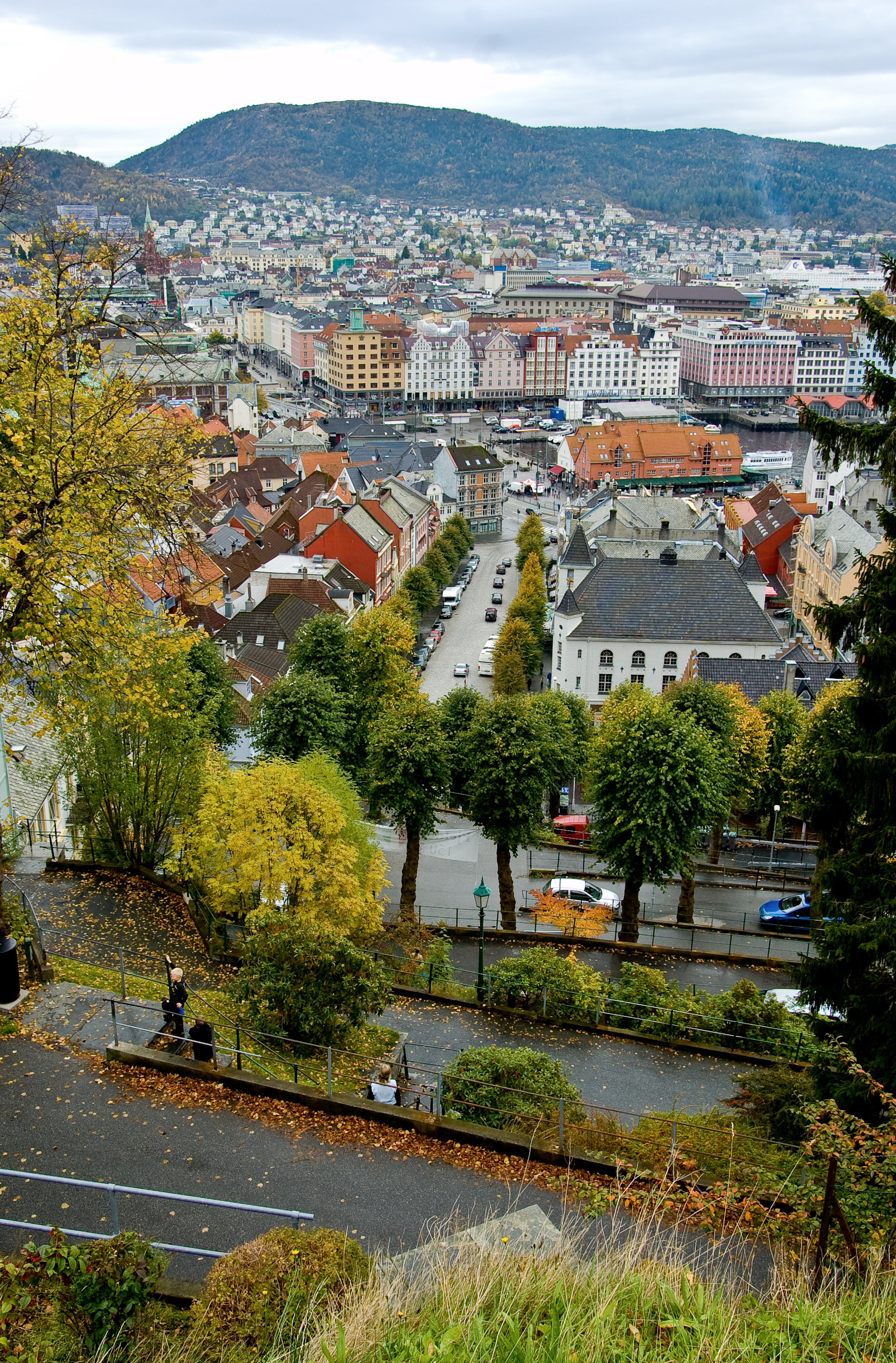 View from Skansen in Bergen, Norway, in September 2007.